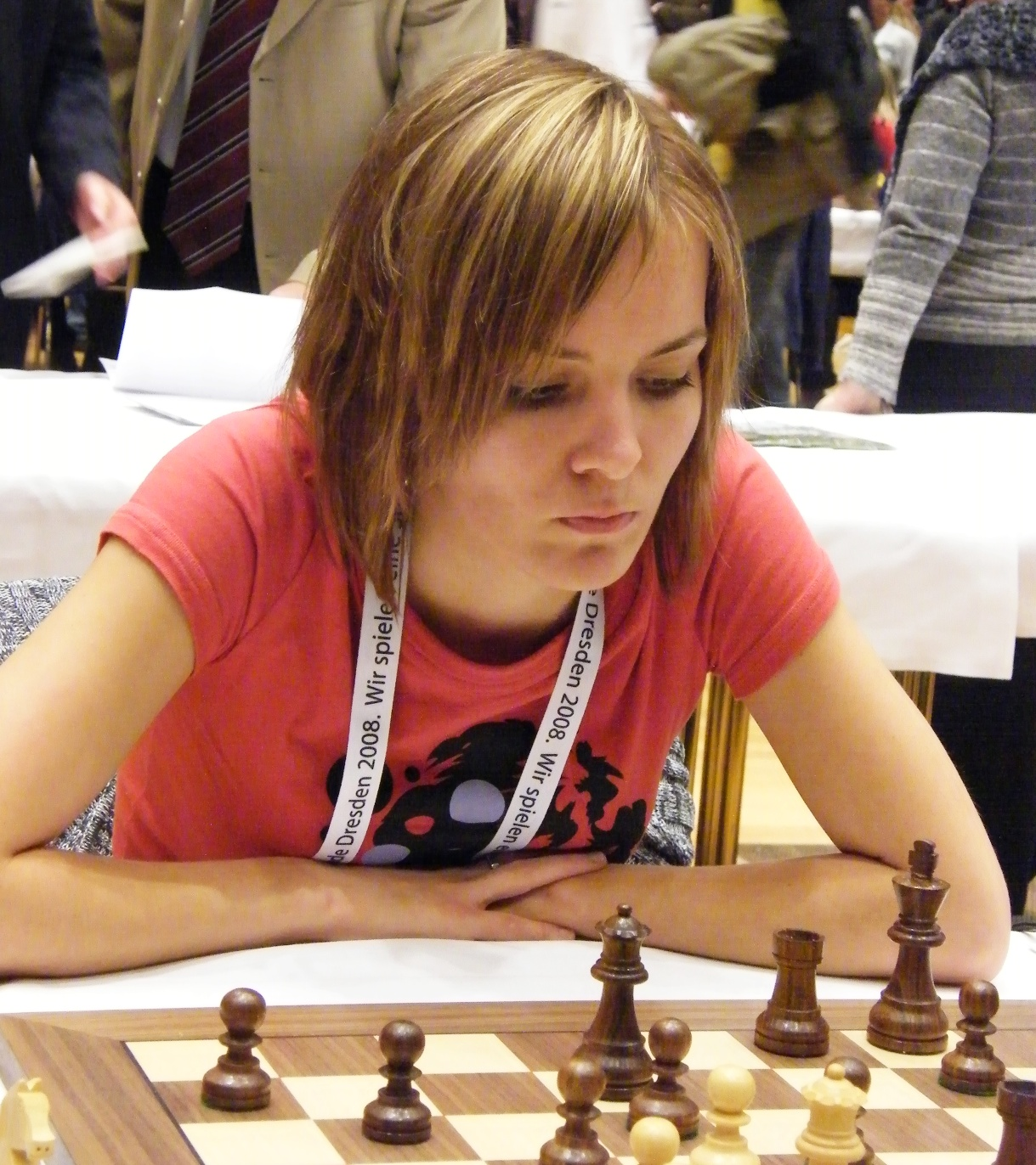 Jana Jacková